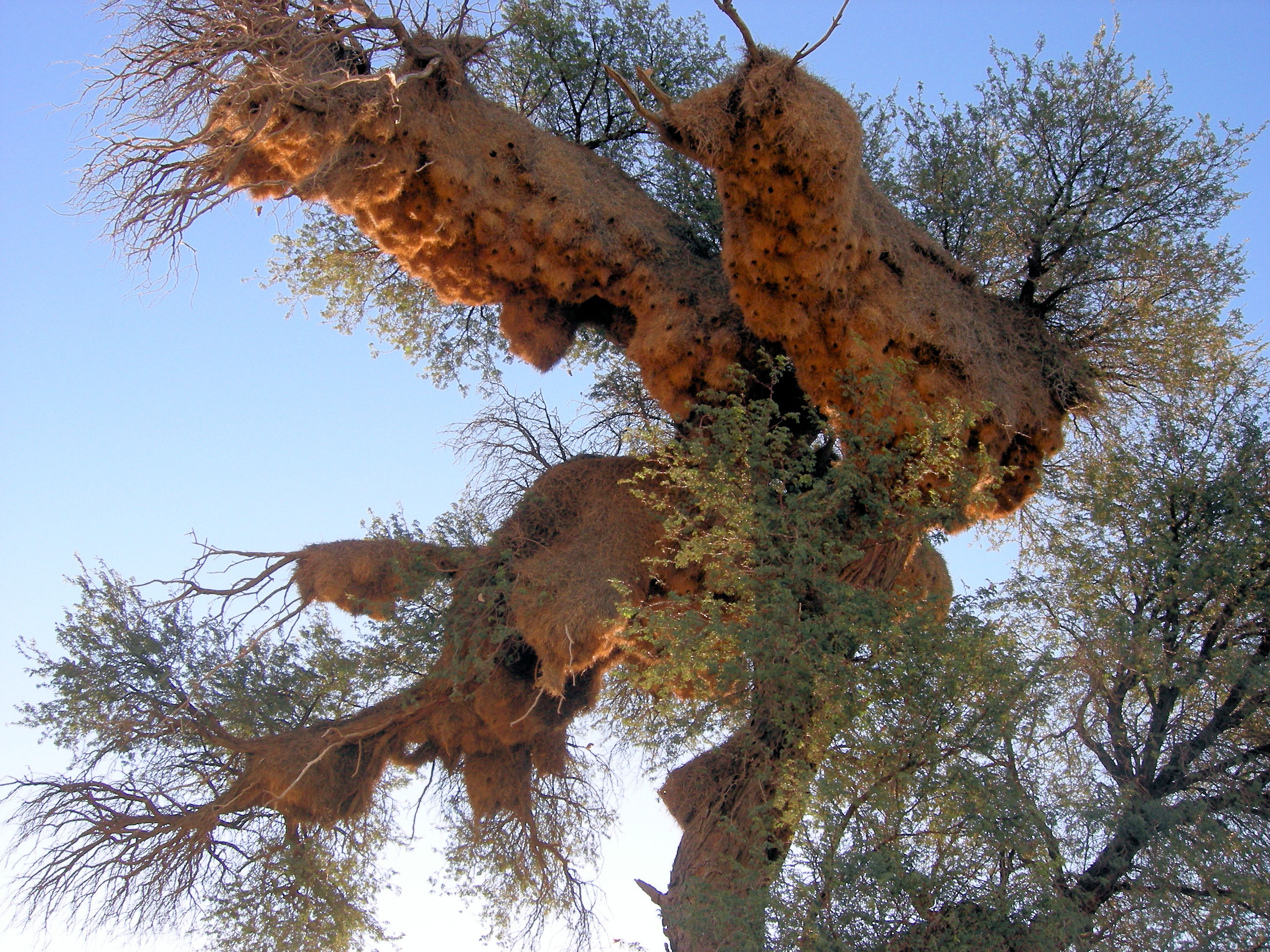 A large nest structure of the Sociable Weaver (Philetairus socius) in Kgalagadi Transfrontier Park, South Africa